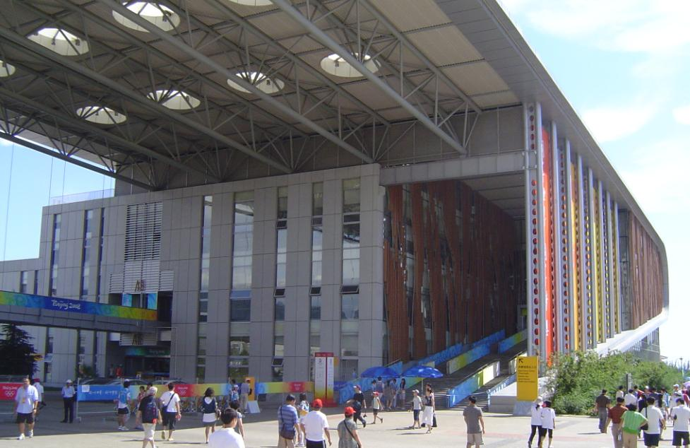 The Beijing Shooting Range Hall used for the final rounds.